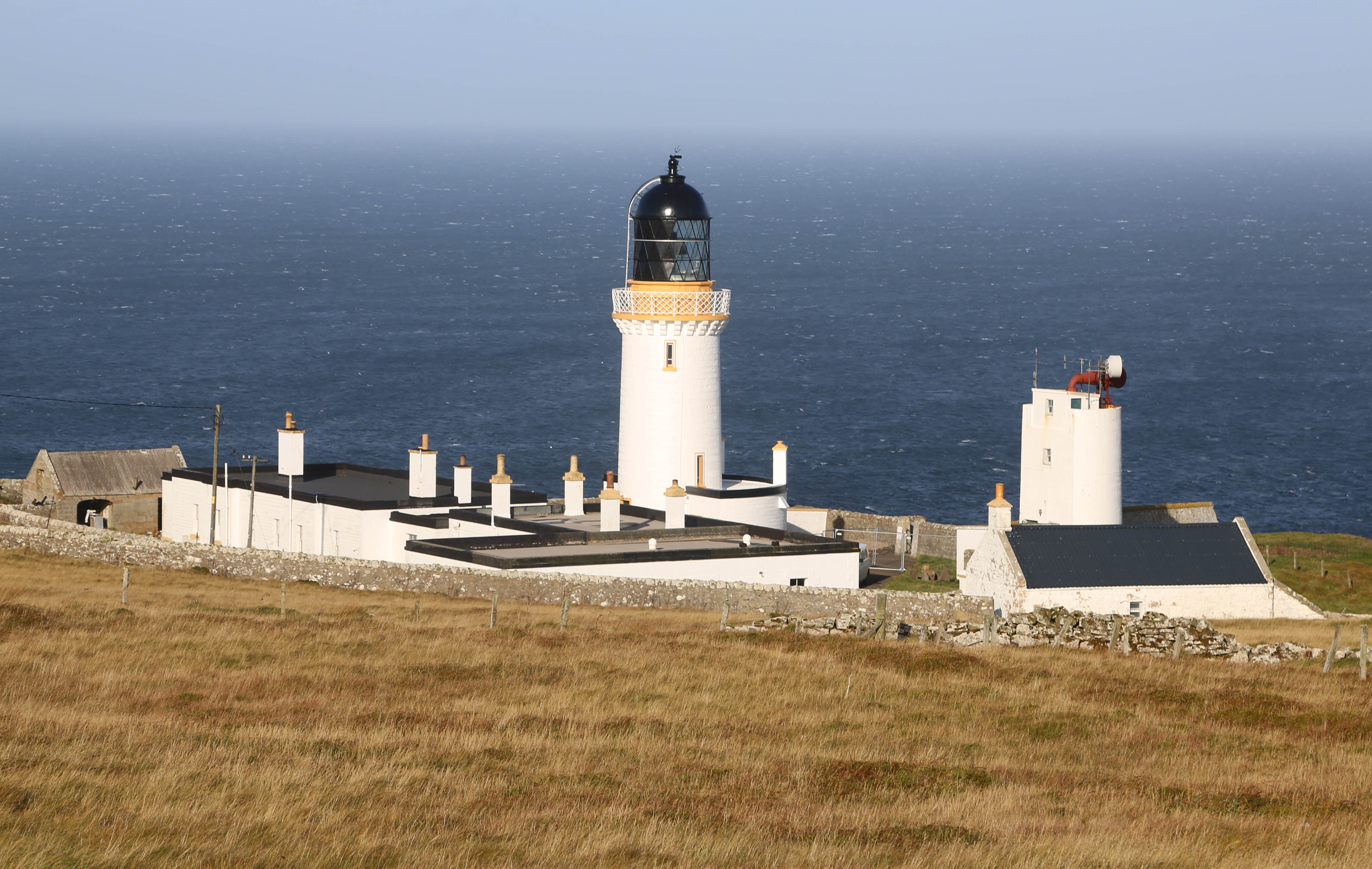 Photo of Dunnet Head lighthouse